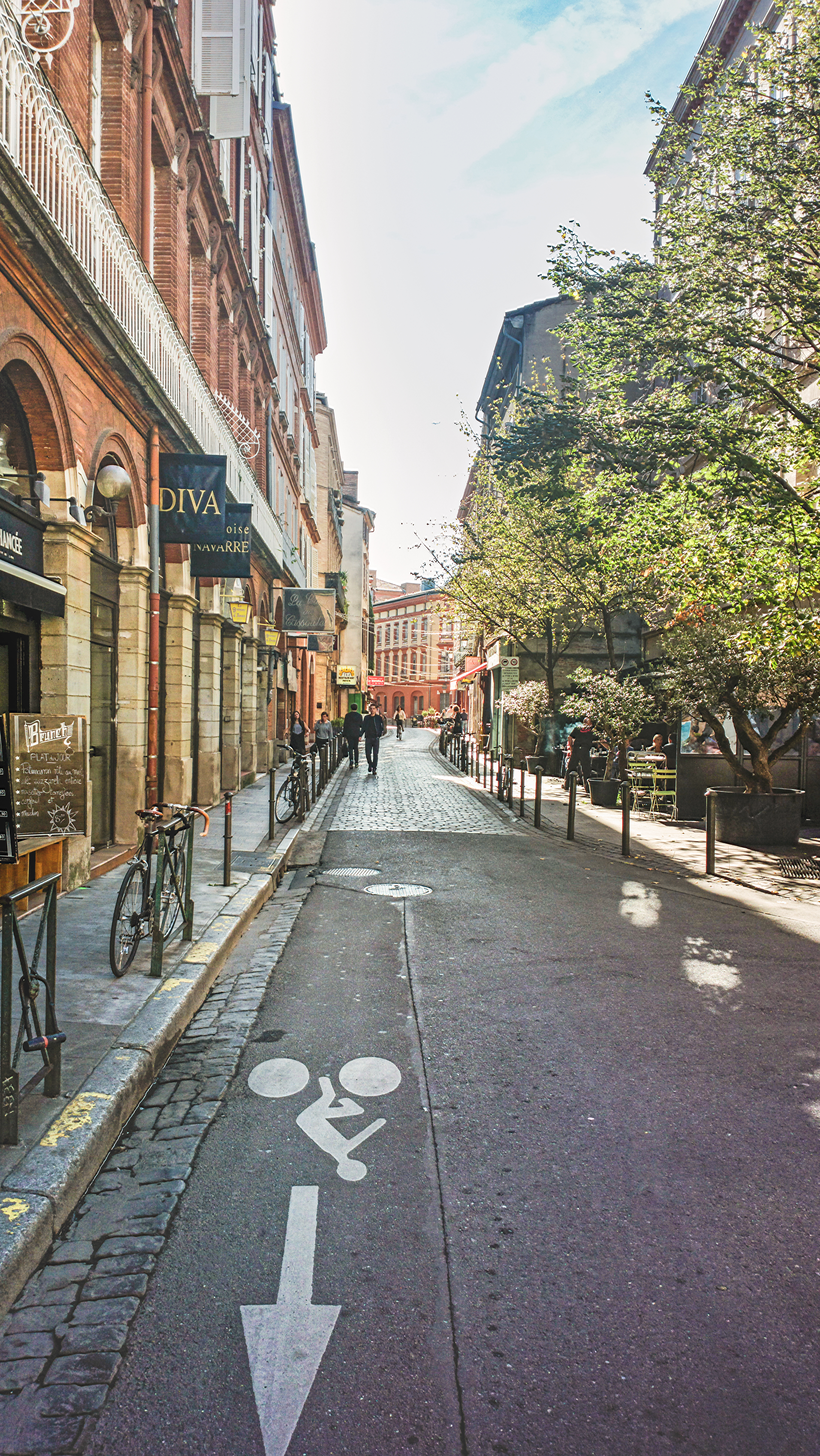 Rue Peyrolières, in Toulouse - viewed from Rue Gambetta to the south.